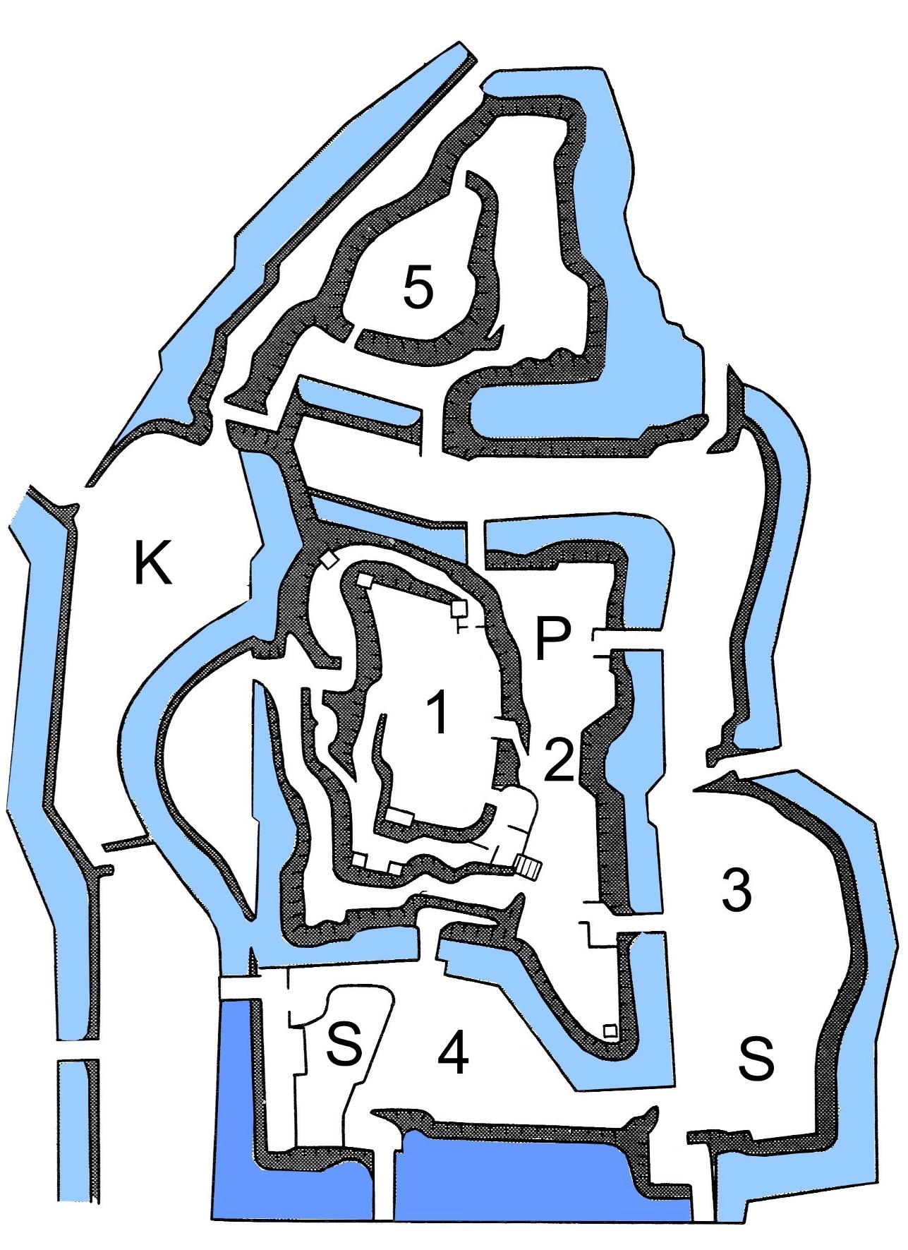 Layout of Kubota castle Japan